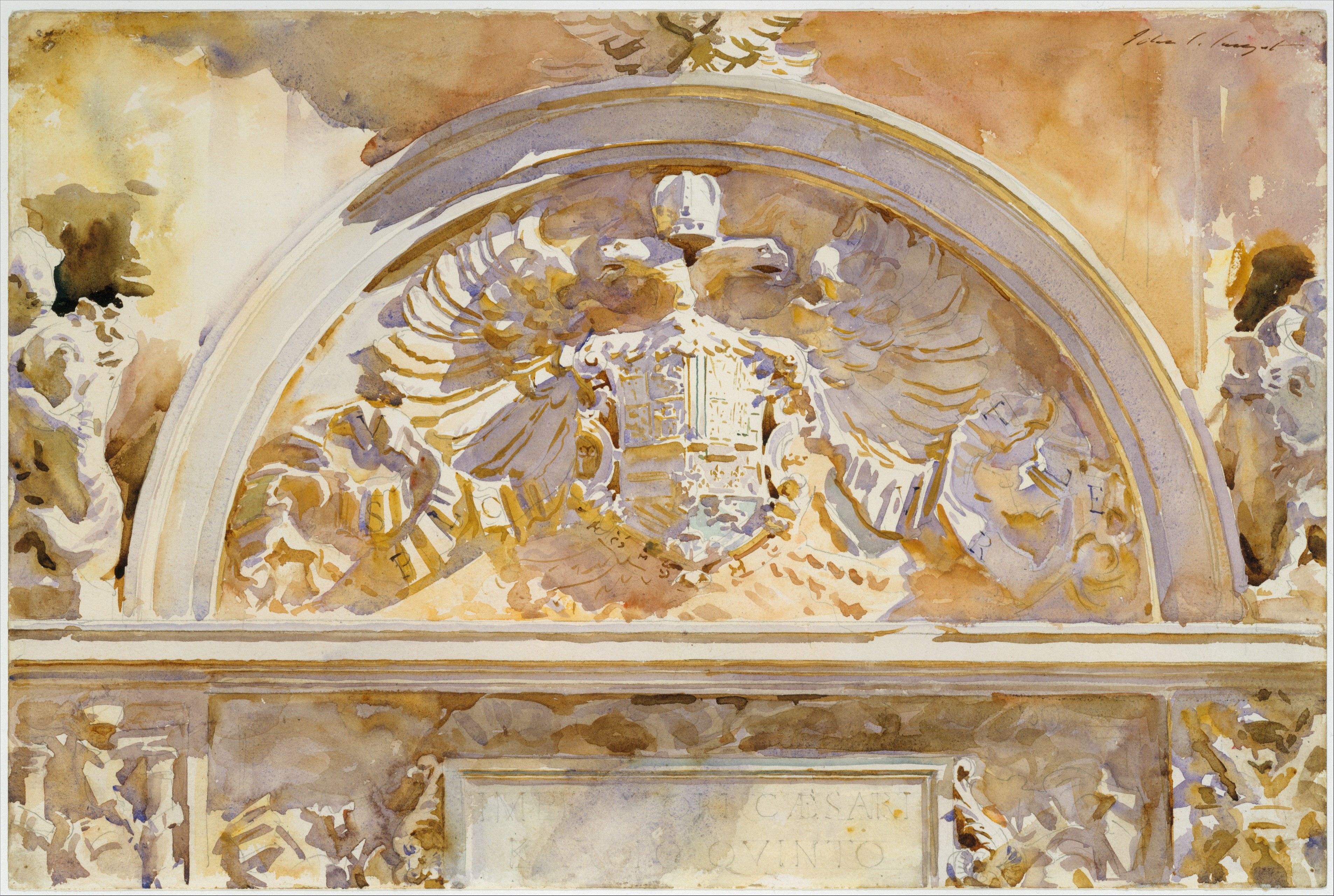 Watercolor; Drawings